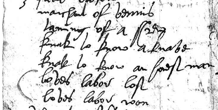 List of several plays from the verso of the 1603 leaf used to bind a book of sermons in 1637, including Love's Labour's Won